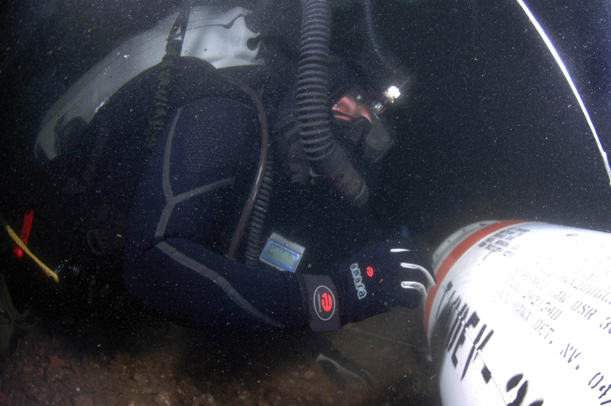 PORTSMOUTH, N.H. (June. 10, 2008) U.S. Navy Explosive Ordnance Disposal Mobile Unit (EODMU) 2 perform diving operations to raise a mine off the ocean floor during a scenario for Frontier Sentinel, an annual maritime homeland security exercise taking place in the northern Atlantic. The joint interagency exercise involves the Canadian Navy and U.S. Navy and U.S. Coast Guard, as well as numerous other federal, state, and local agencies in the detection, assesment and responce to a maritime security threats. U.S. Navy photo by Mass Communication Specialist 2nd Class Christopher Perez (Released)